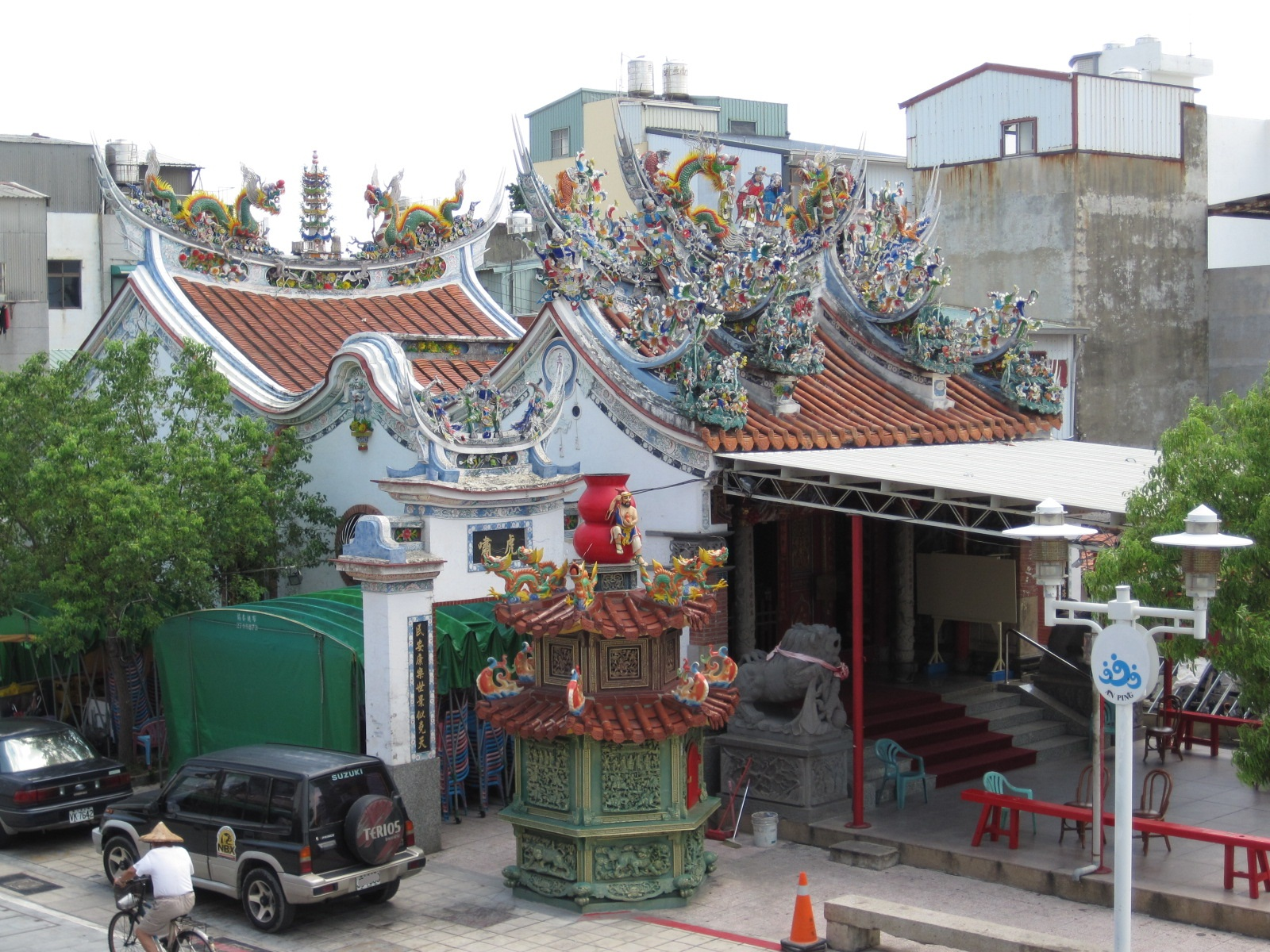 A historical tempale in Tainan, Taiwan.中文（台灣）: 台南市安平區的古廟，妙壽宮。